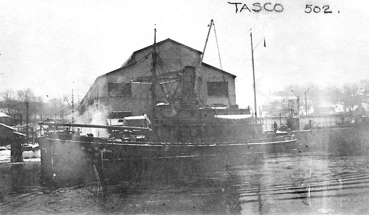 The tug Tasco, prior to her United States Navy service as patrol vessel and minesweeper